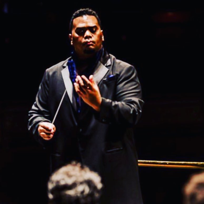 Anthony R. Parnther at the Teatro Royal in Madrid, Spain